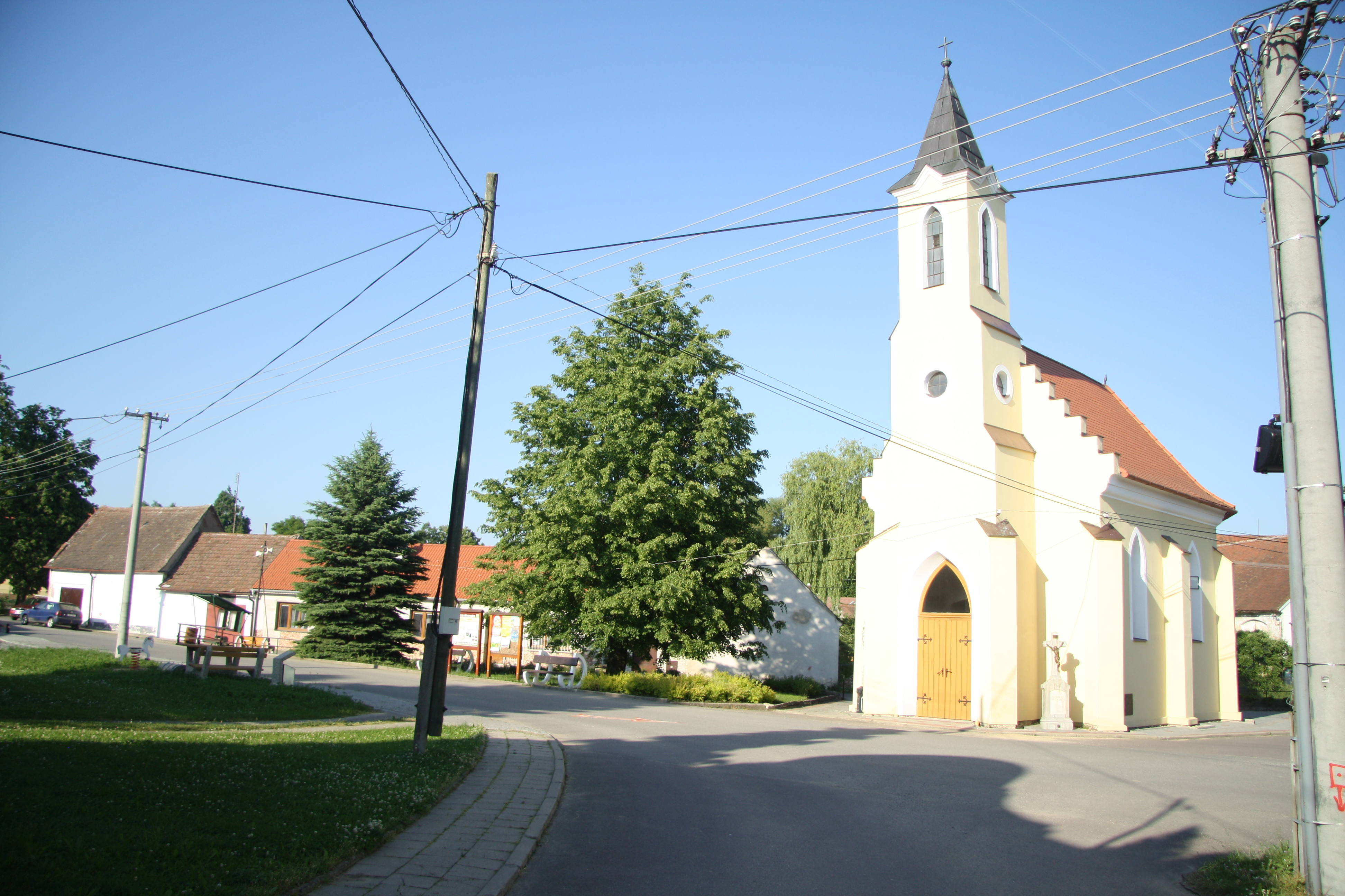 Center of Lhotice with chapel in Lhotice, Třebíč District.